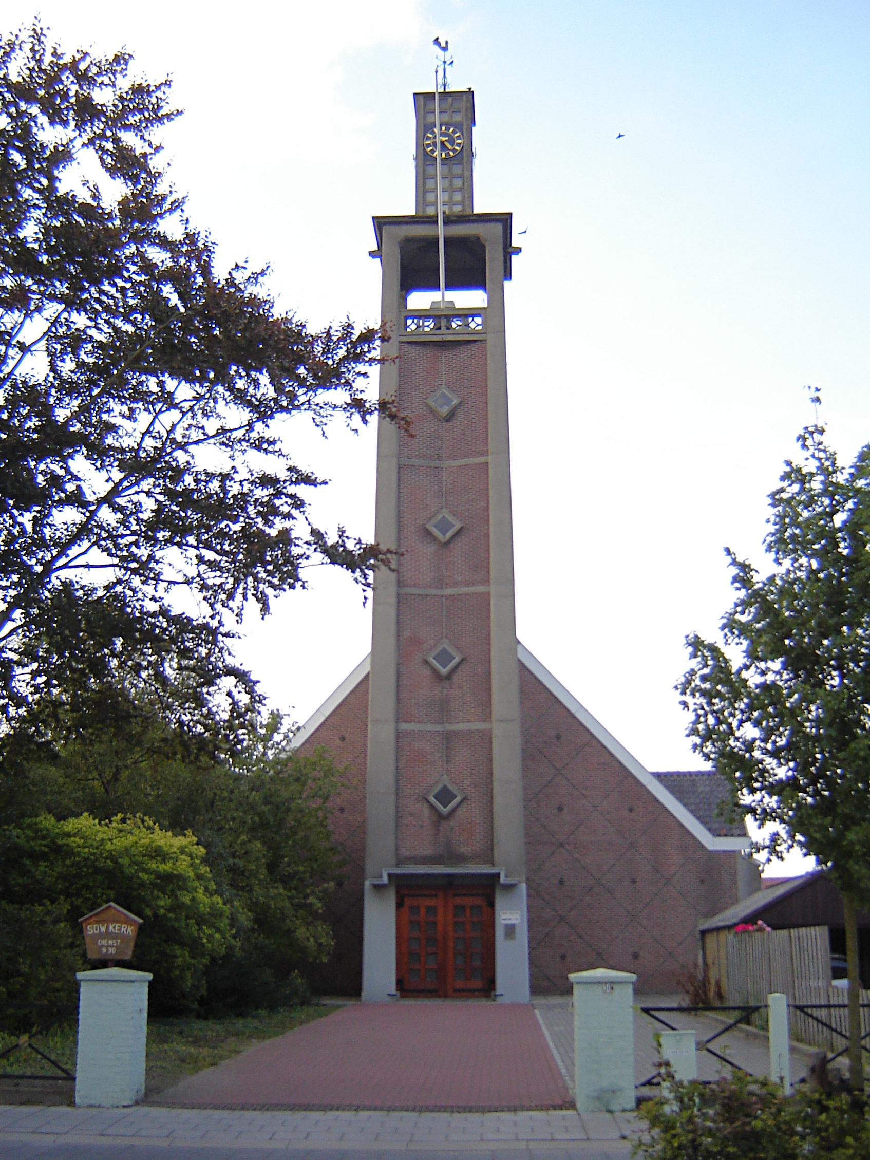 Protestant church in Breskens. Breskens, Sluis, Zeeland, Netherlands